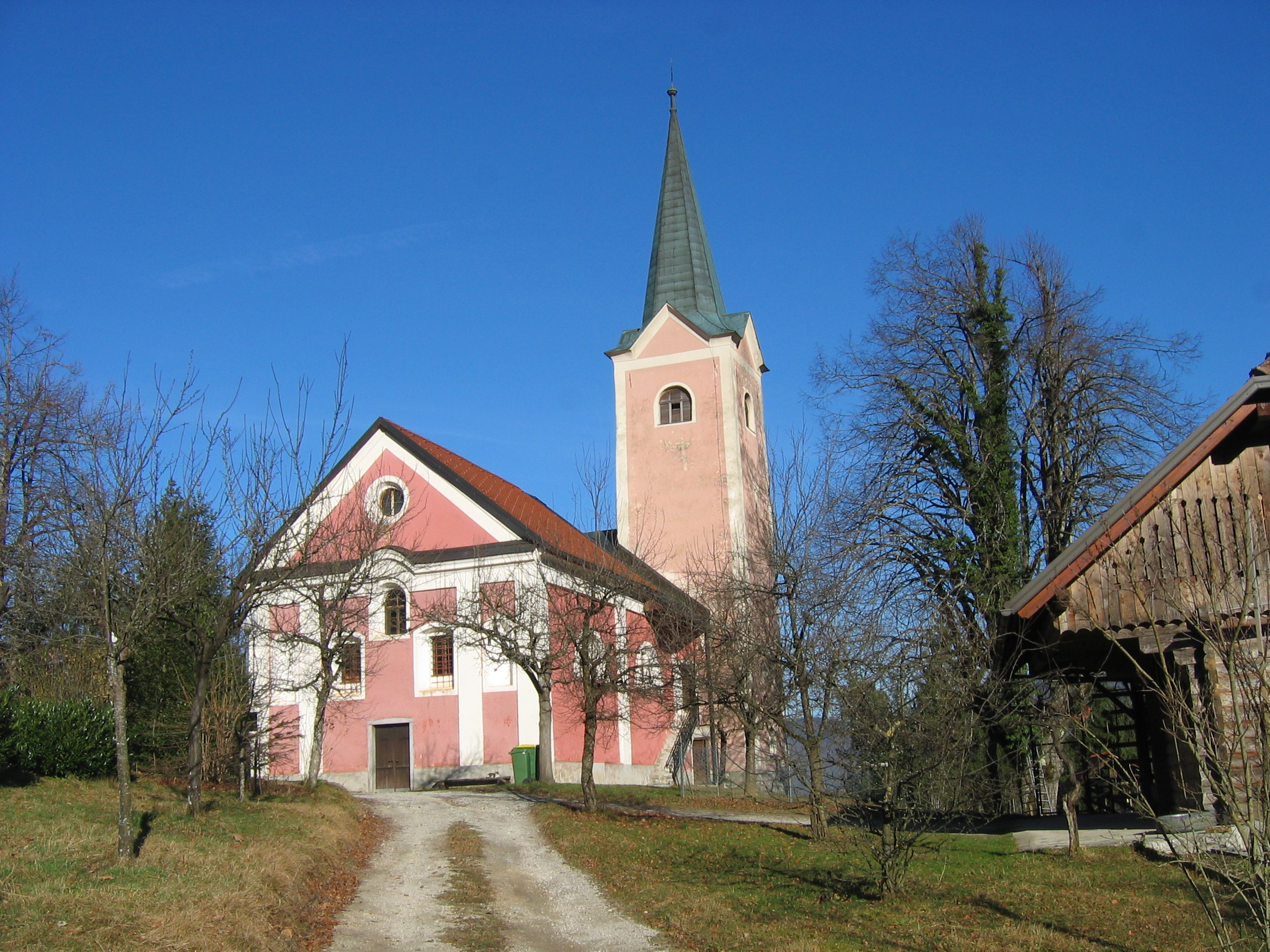 Saint Francis Xavier churches in Sajevec, Slovenia